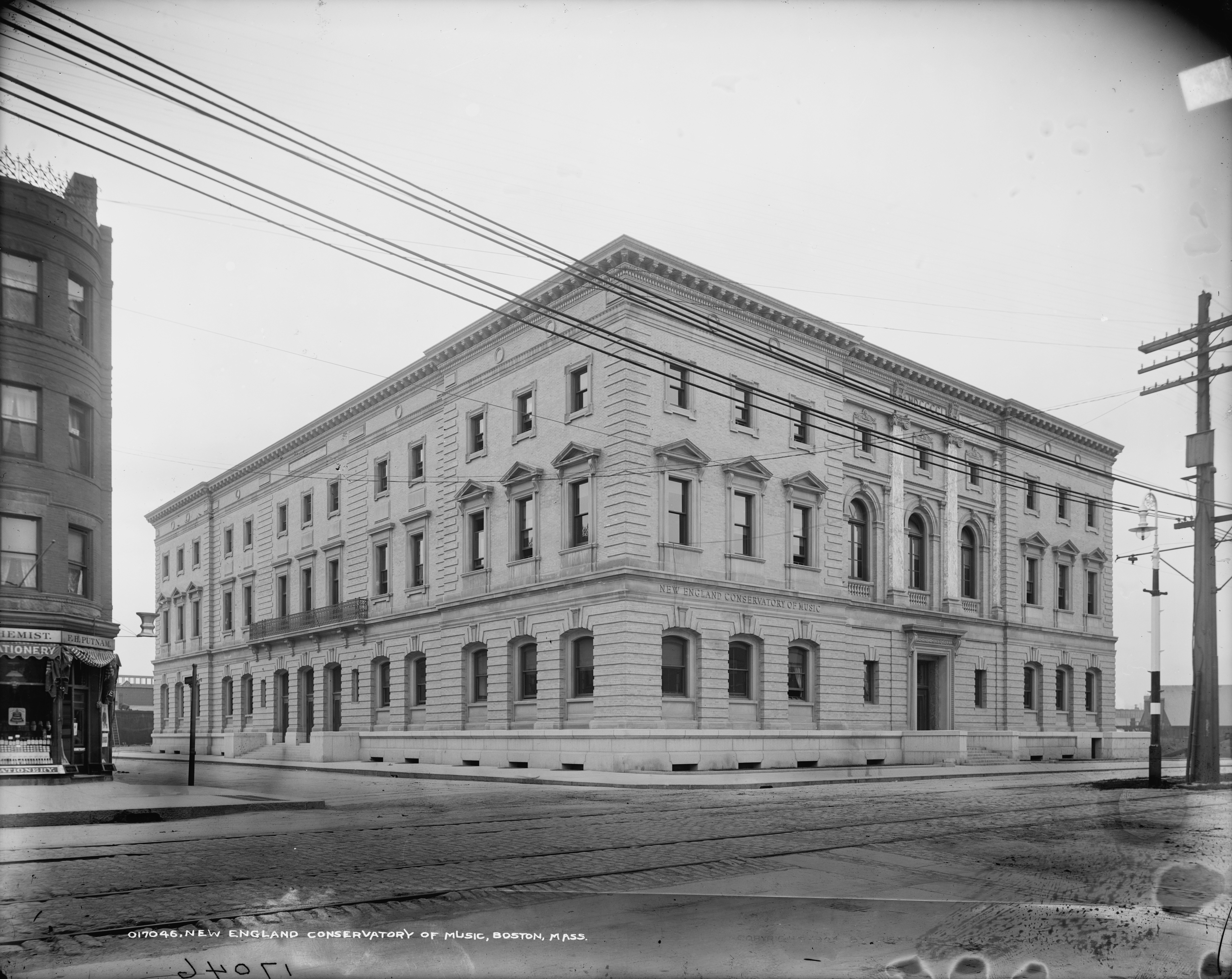 New England Conservatory of Music, Boston, Mass Detroit Publishing Co. no. 017046